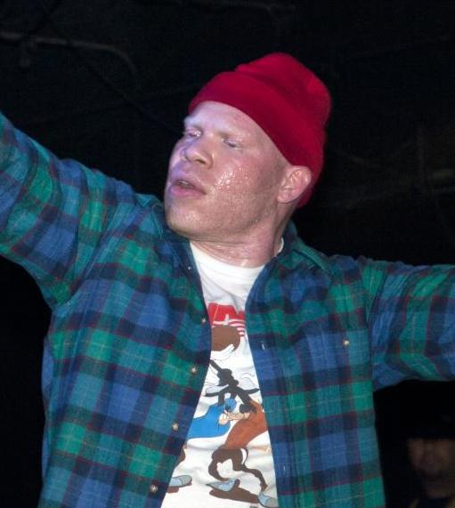 Strong Arm Steady